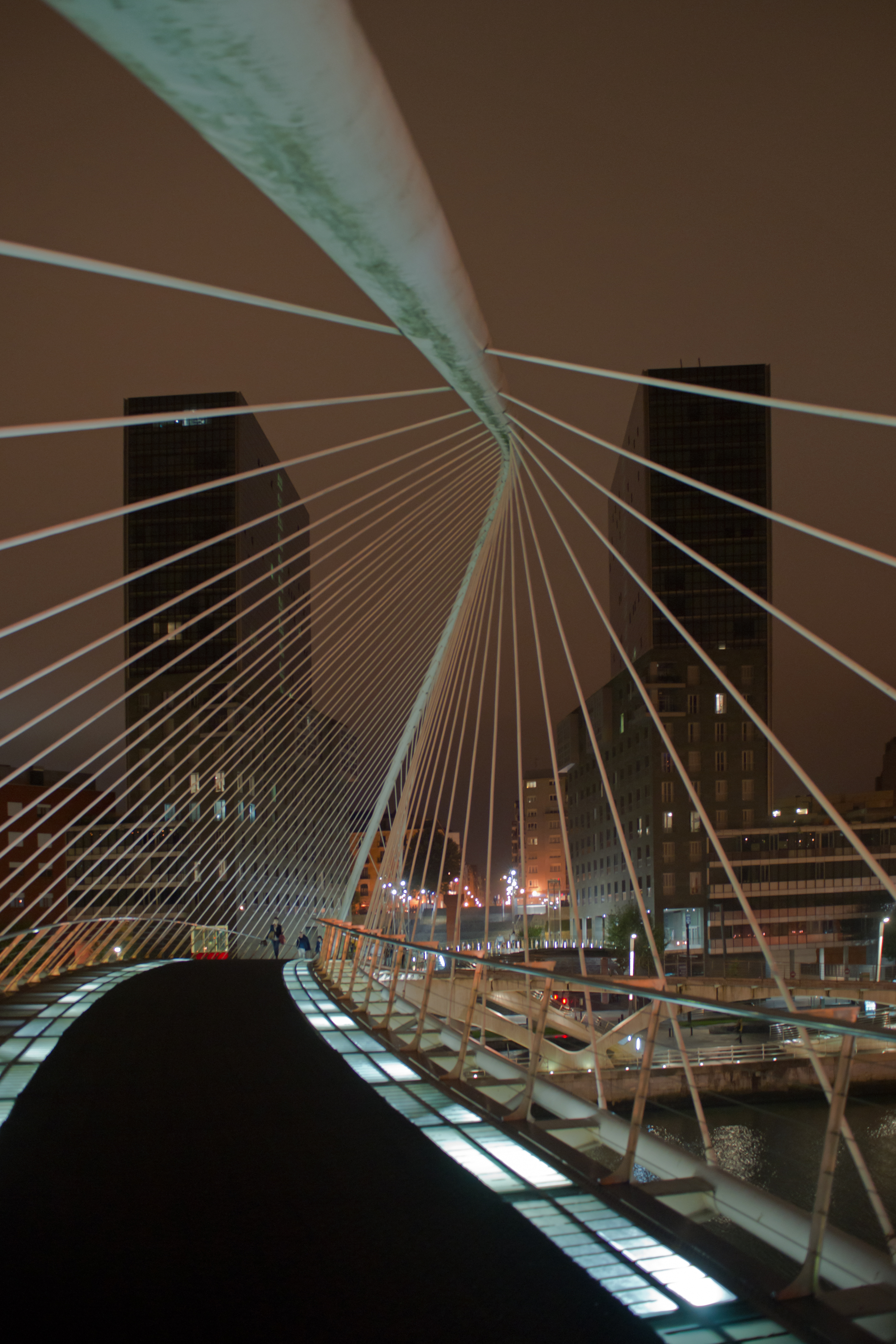 Zubizuri is a pedestrian bridge crossing the Nervión river in Bilbao. Architect: Santiago Calatrava, and Isozaki Gate.